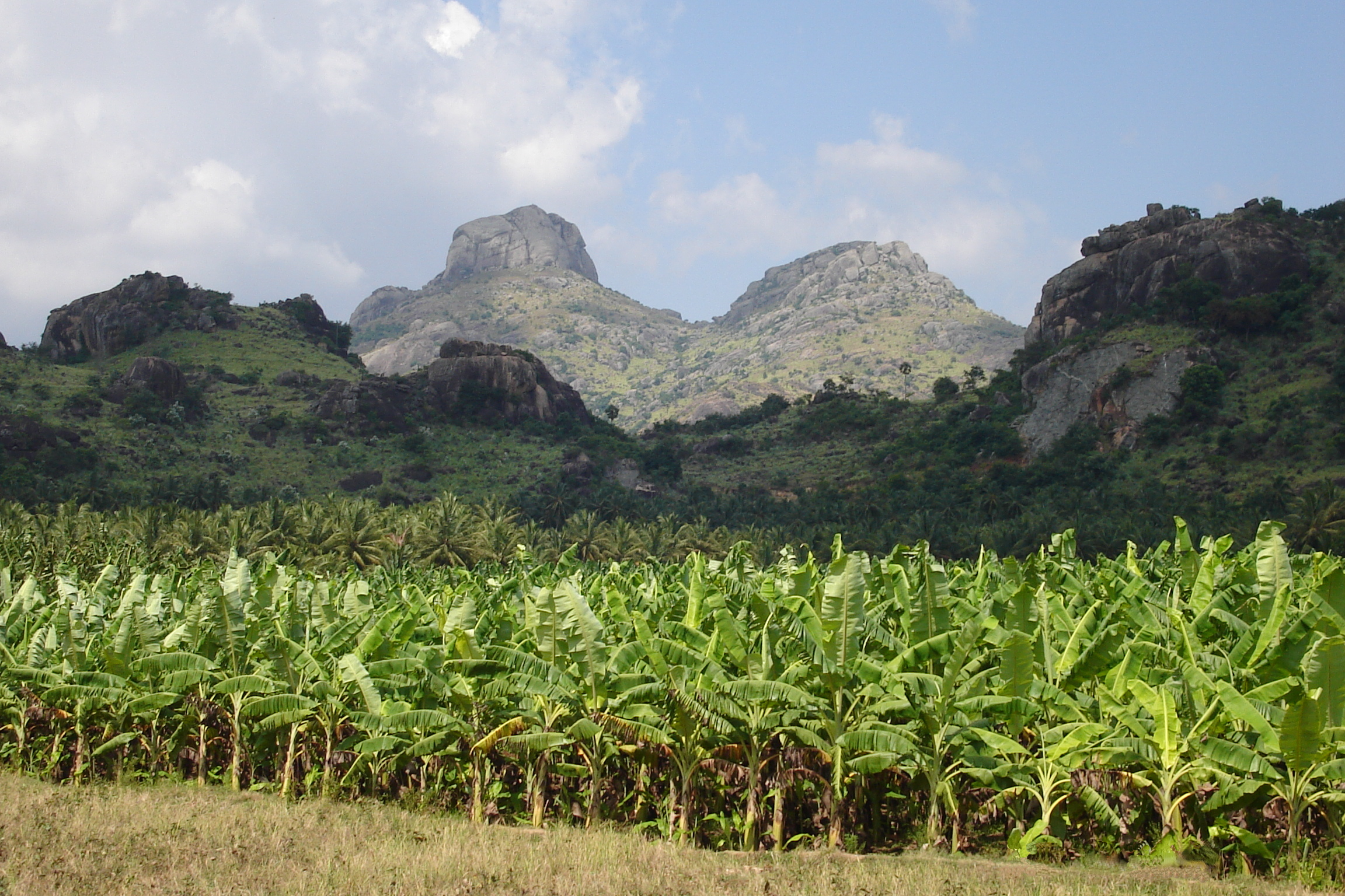 A banana farm on a hillside